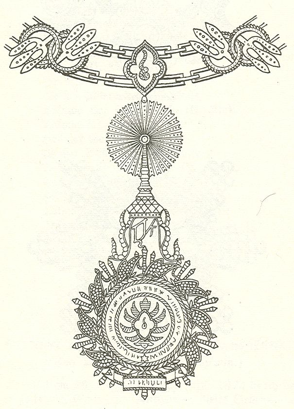 The Most Illustrious Order of the Royal House of Chakri Collar